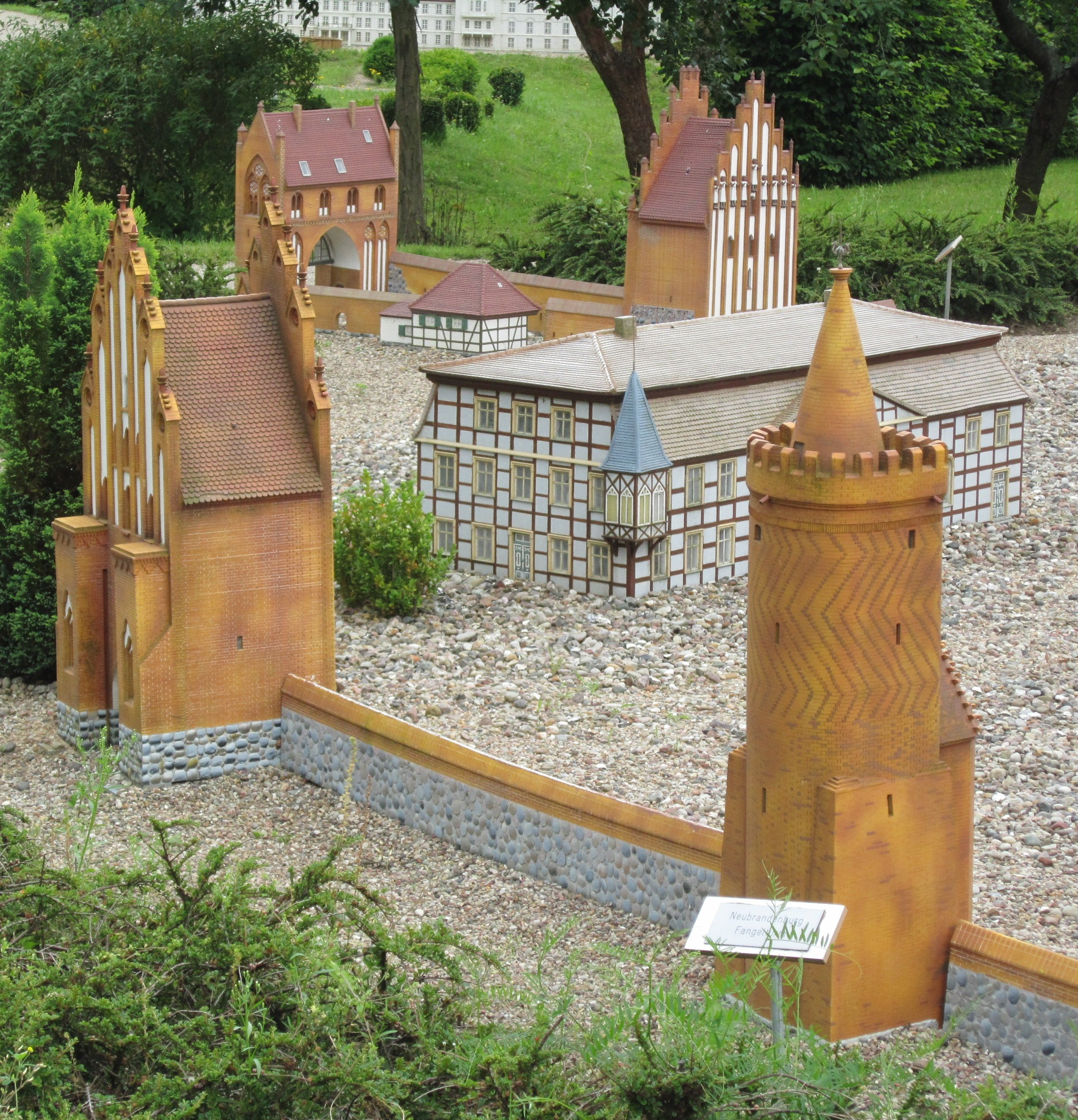 City wall and buildings of Neubrandenburg in the former "Modellpark Mecklenburgische Seenplatte" in Neubrandenburg